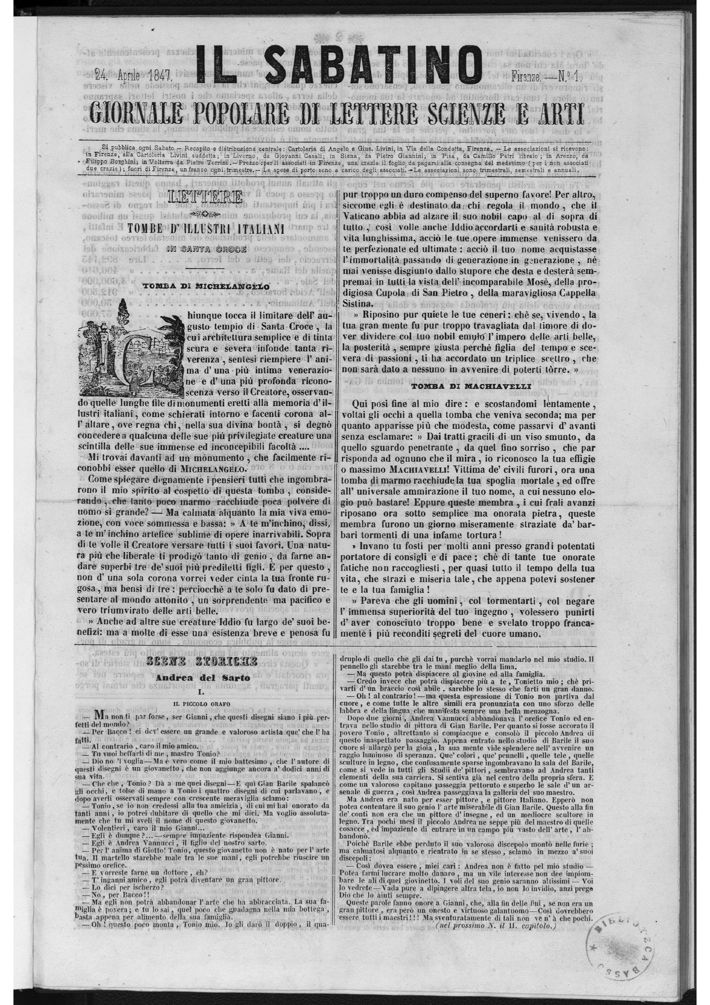 first page of risorgimental newspaper Il Sabatino, n°1 24 april 1847